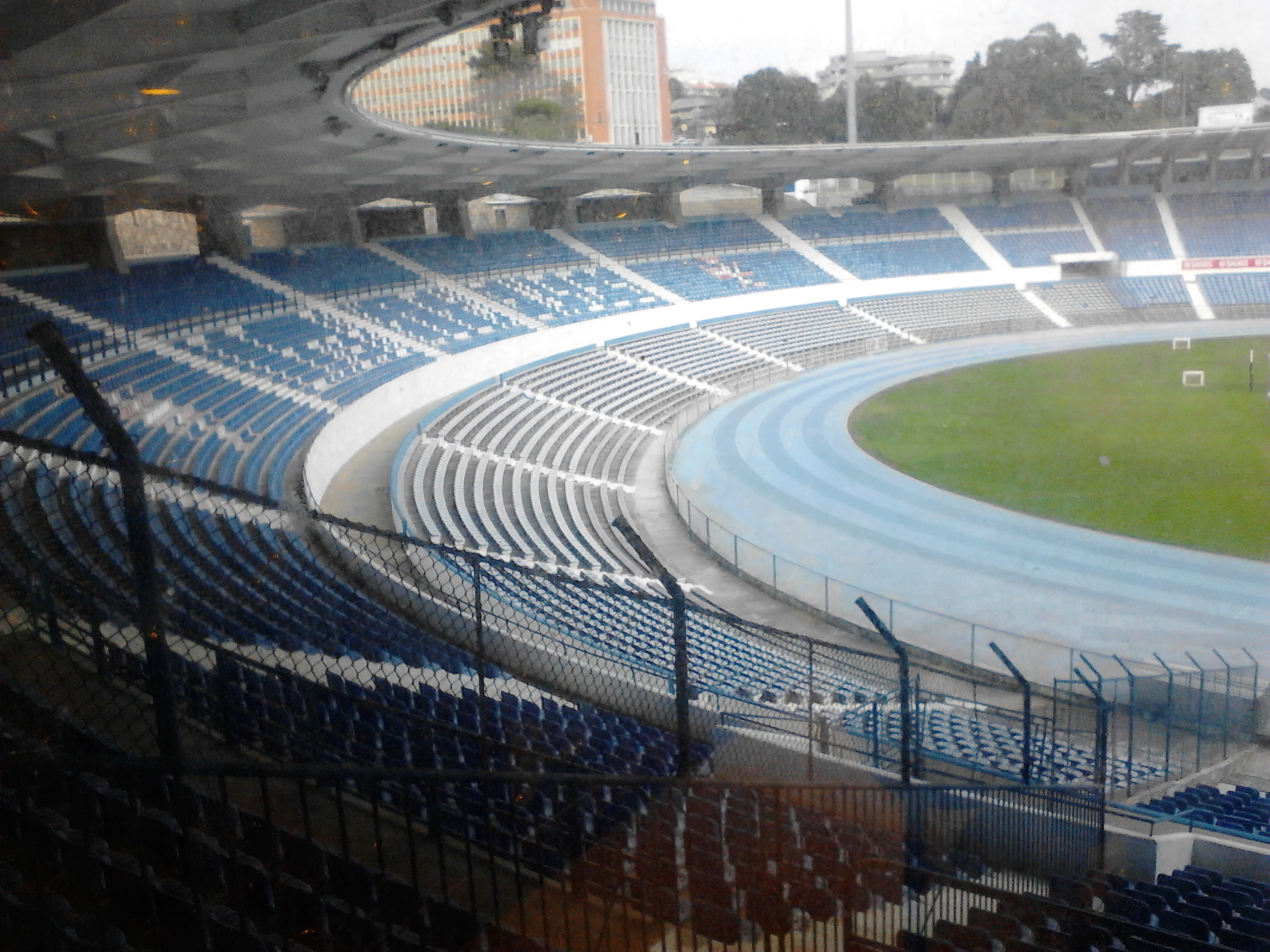 Picture of the field seen through glass of the museum